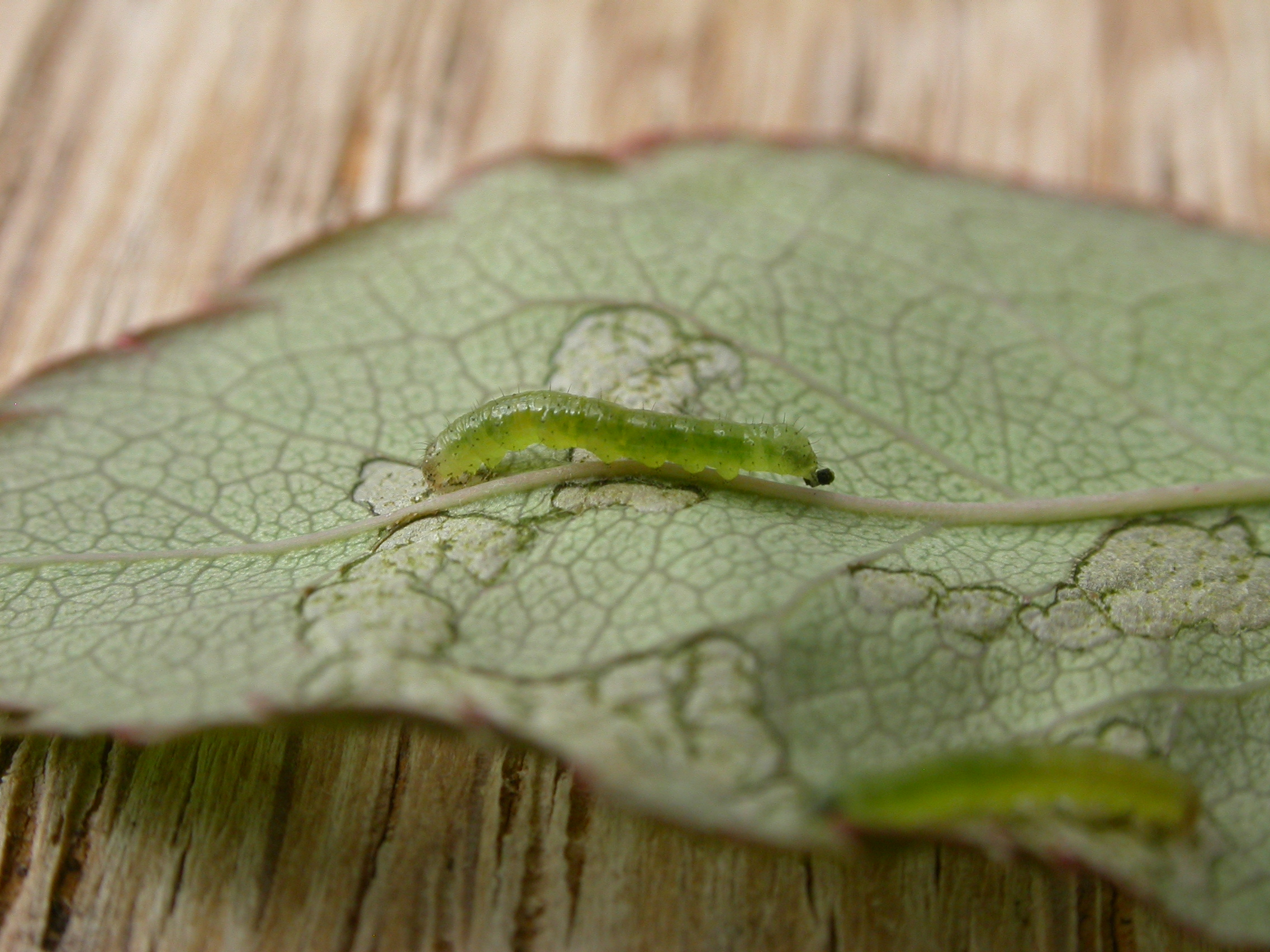 Neumichtis nigerrima (Guenée, 1852), larvae from eggs laid on 22/23 December 2010 and hatched on 30 December 2010, feeding on Rosa, Aranda, ACT, 8 January 2011